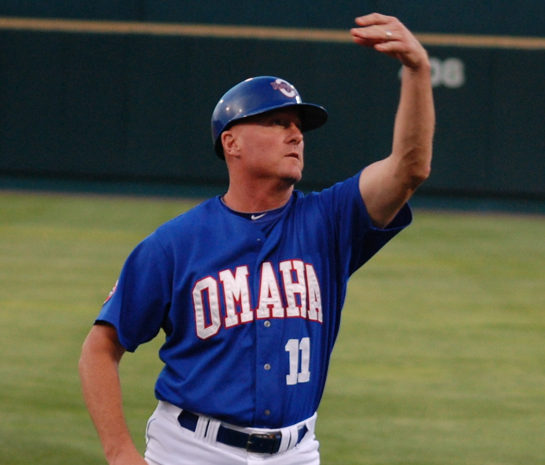 Omaha Royals hitting coach Tommy Gregg during a 2010 game